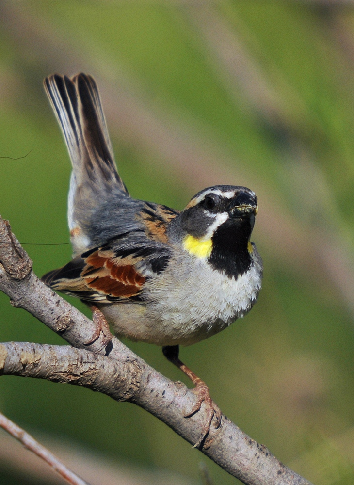 Dead sea sparrow Kurdî: Beytika biçûk